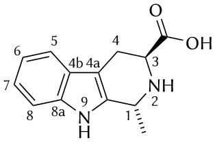 (1R,_3S)-1-methyltetrahydro-carboline-3-carboxylic_acid reported CNS active compound contained in maca.